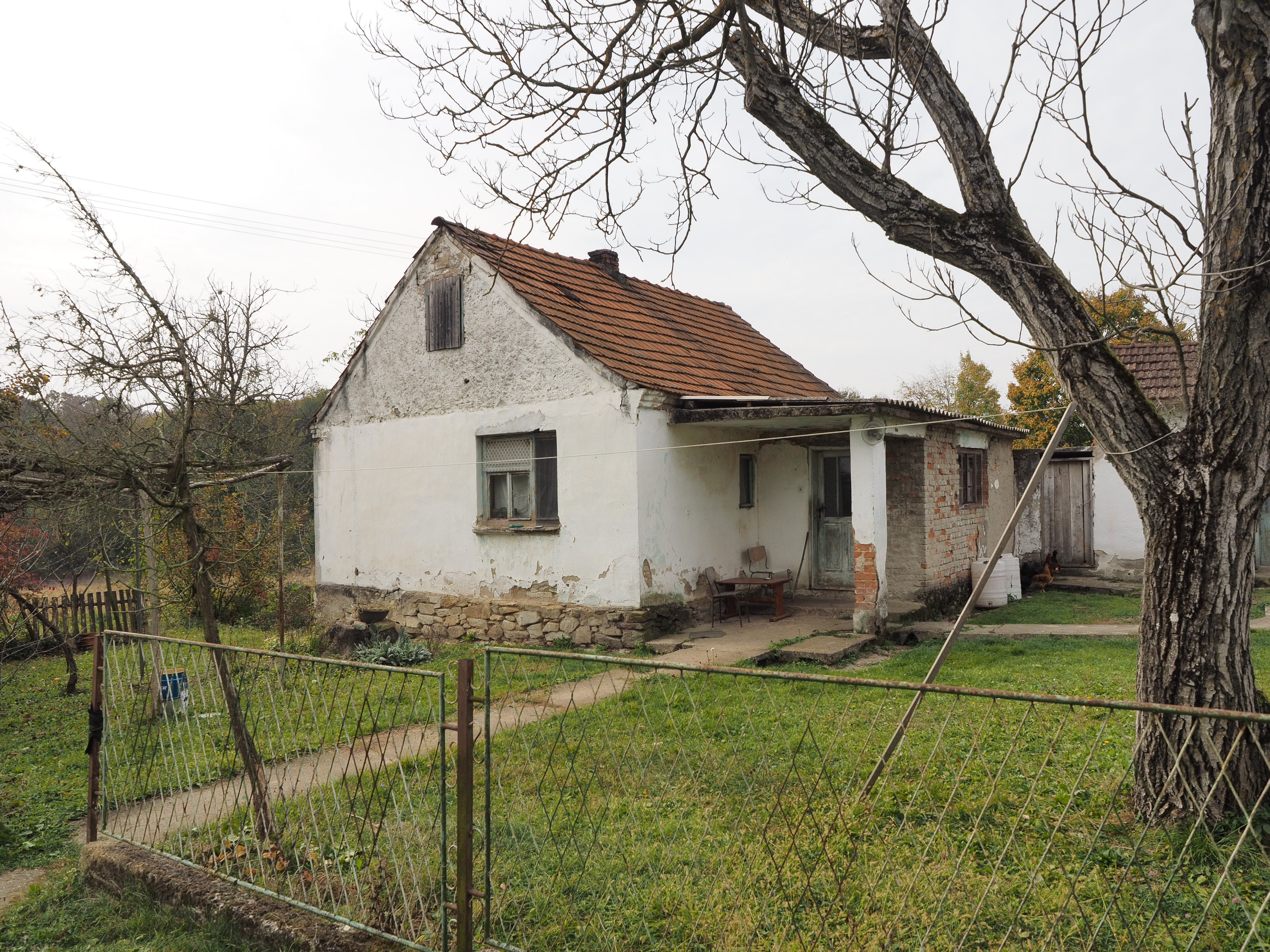 House where Lepa Radić was born (Gašnica, Gradiška)